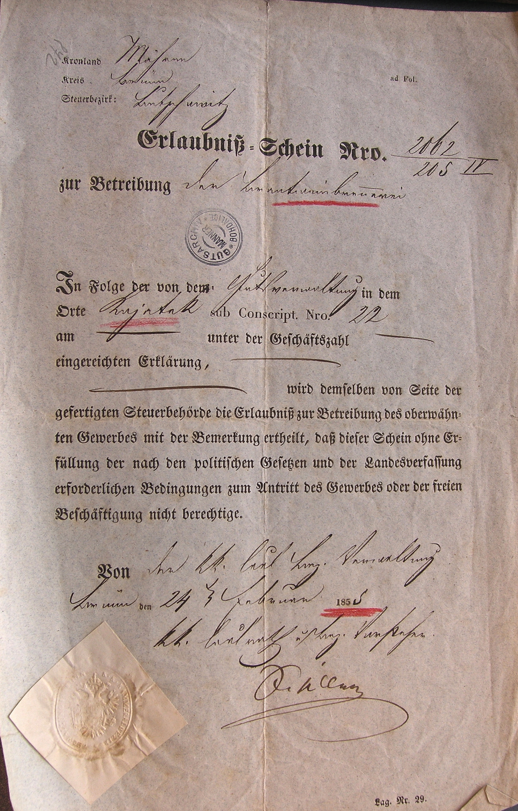 Concession beer and burnt wine tap-room in Kojátky house No.22 from February 24. 1856